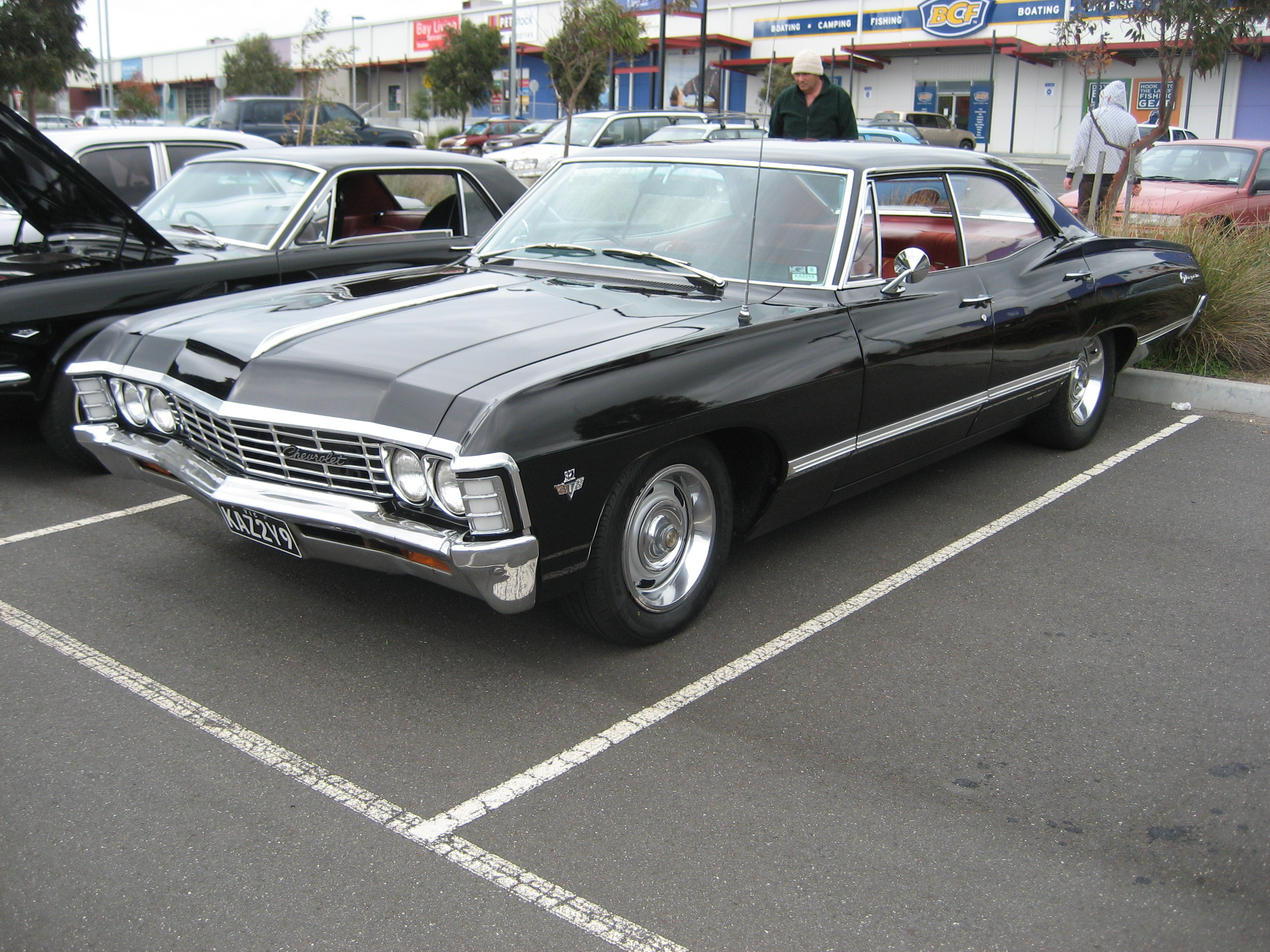 Available in Sedan, 2 & 4 door Hardtop, Coupe, Convertible & Wagon. Biscayne, Bel Air, Impala & Caprice. Engines; 250 6 cyl, 283, 327, 396, 409 & 427 V8s